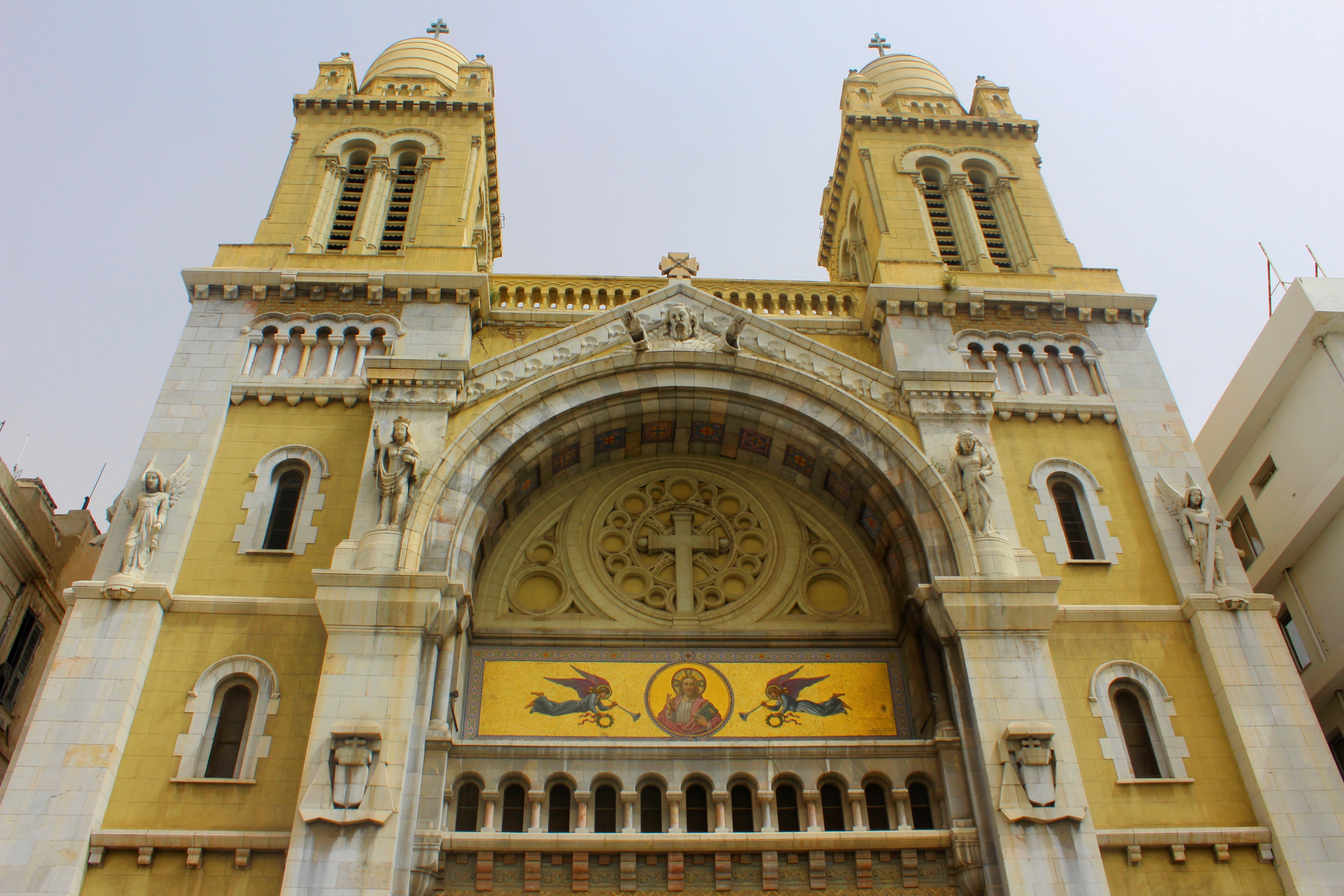 Independence Square, Tunis ساحة الاستقلال, تونس العاصمة